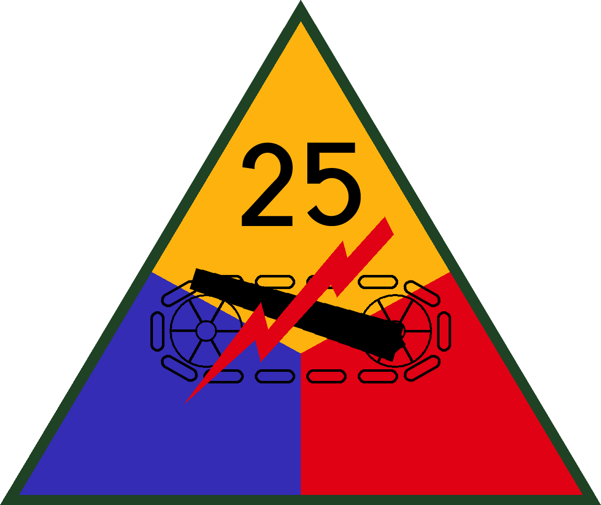 US Army 49th Armored Division Shoulder Sleeve Insignia - Was a Ghost Division on WWII. for details: Operation Fortitude